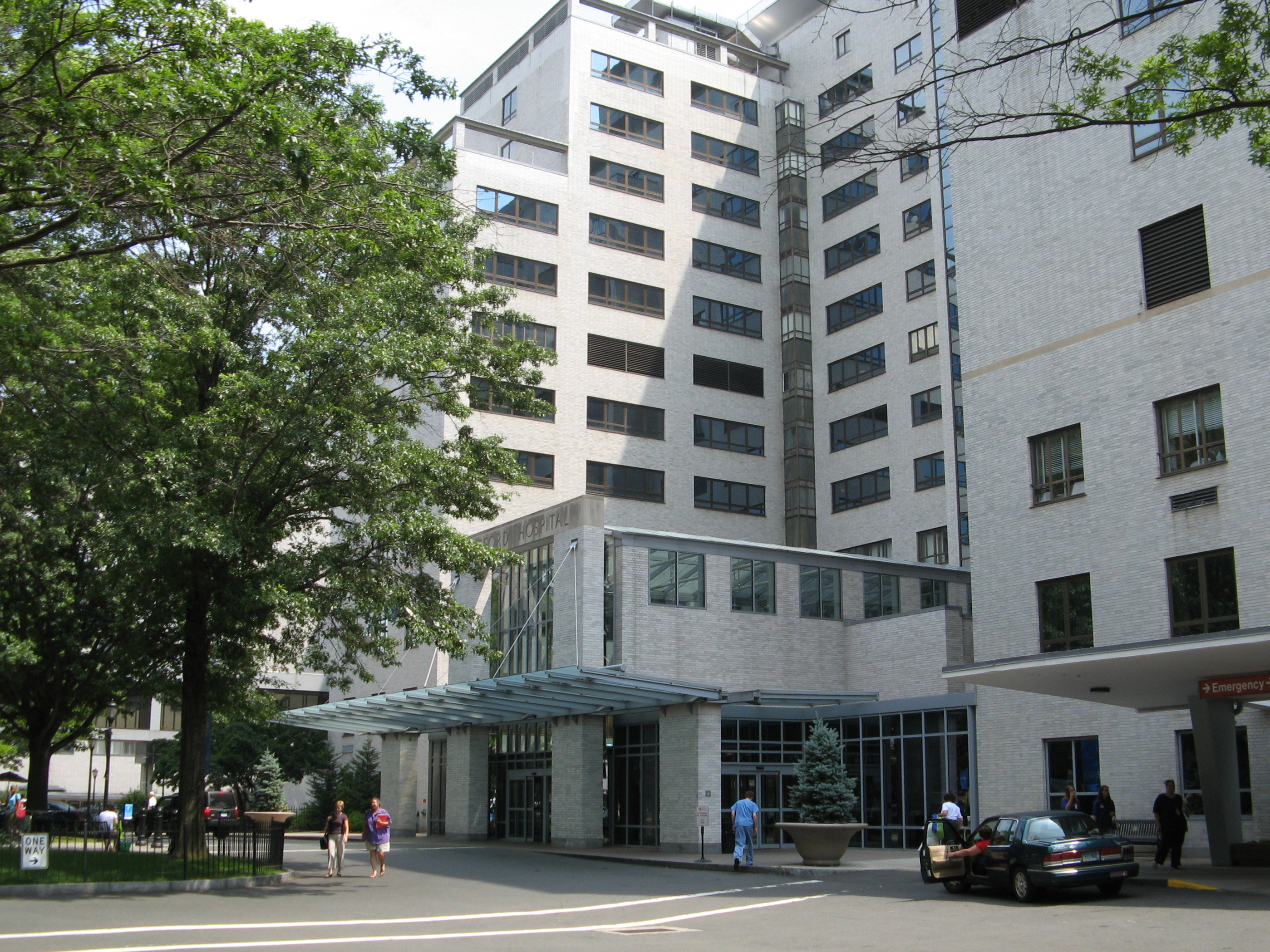 The front entrance of Hartford Hospital in Hartford, Connecticut, United States